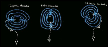 Weakly electric fish use electroreception to locate the electric fields, and orient themselves parallel to the field and follow the field until they locate the source. This example illustrates an example where dipole electrodes were oriented in different directions and the movement of the fish was recorded, based off of an experiment by C.D. Hopkins in 1997.